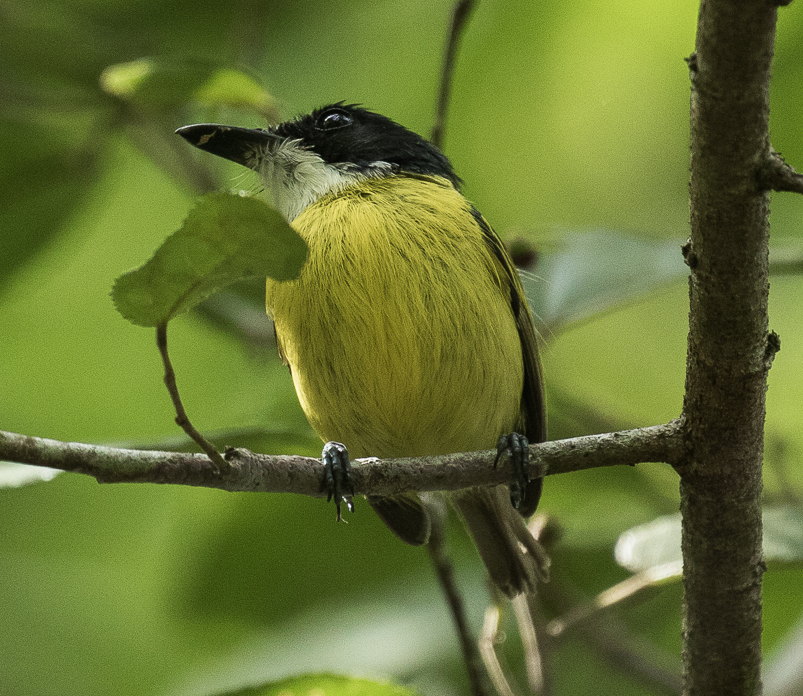 Black-headed Tody-Flycatcher - Darien - Panama CD5A2021